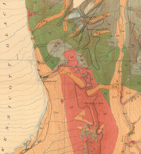 Bonanza Mine geologic map